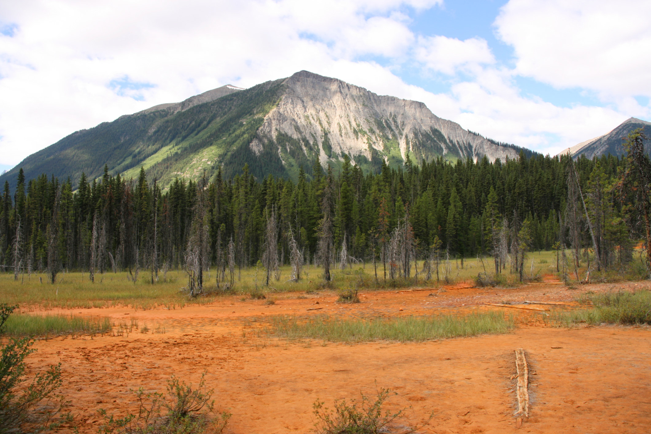 Iron rich red soil near Paint Pots mineral springs in Kootenay National Park, British Columbia, Canada.